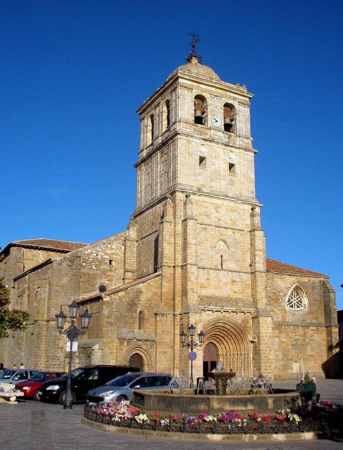 Colegiata de San Miguel Arcángel (Aguilar de Campoo)